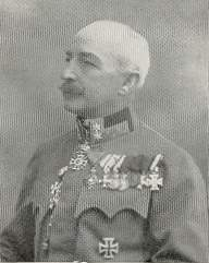 Infantery general Paul NAGY 1922-1927, hung. division commander in WW1, 1922-25 Supreme Commander of the Royal Hungarian Army